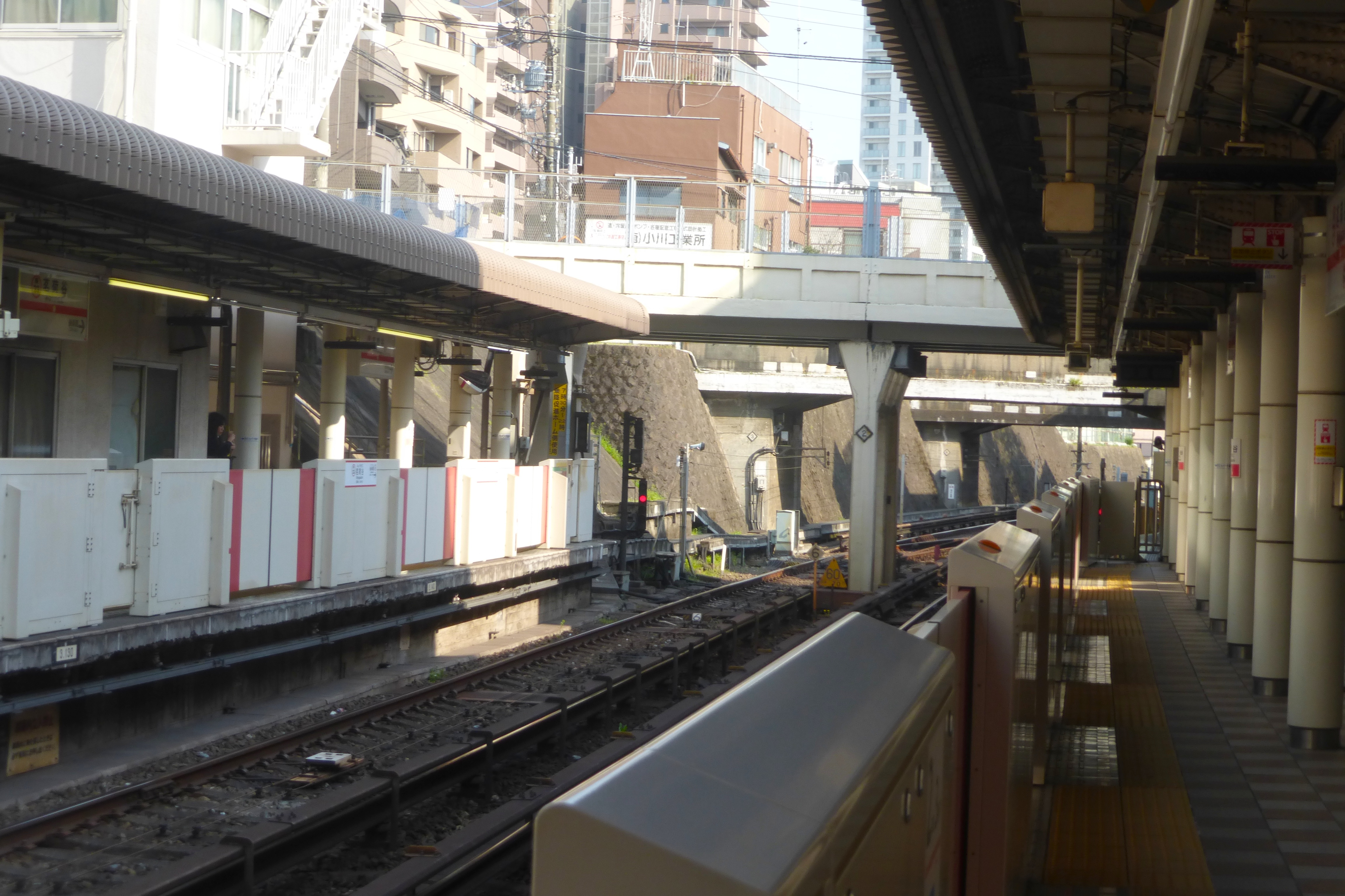 Myōgadani Station platforms (茗荷谷駅のホーム)